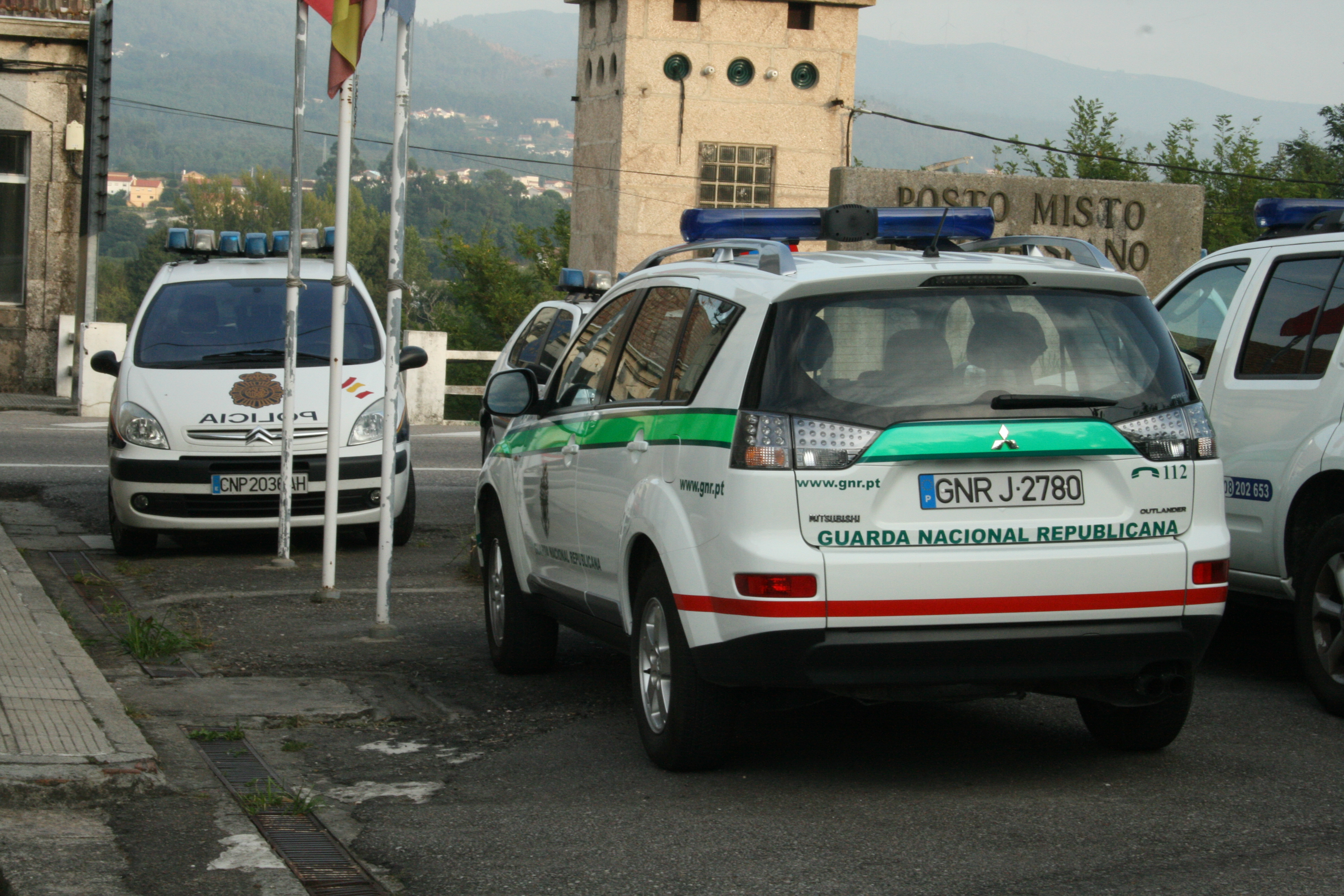 Spanish-Portuguese Joint Commissioner of Tuy. Spanish-Portuguese Joint Commissioner of Tuy (Galicia, Spain). Pictured are, from left to right, several cars of the National Corp of Police (CNP) from Spain, a car of the portuguese National Republican Guard (GNR) and an off-roading of the Alienage and Borders Service (SEF) of Portugal. In the center waving the flags of Portugal, Spain and the European Union.